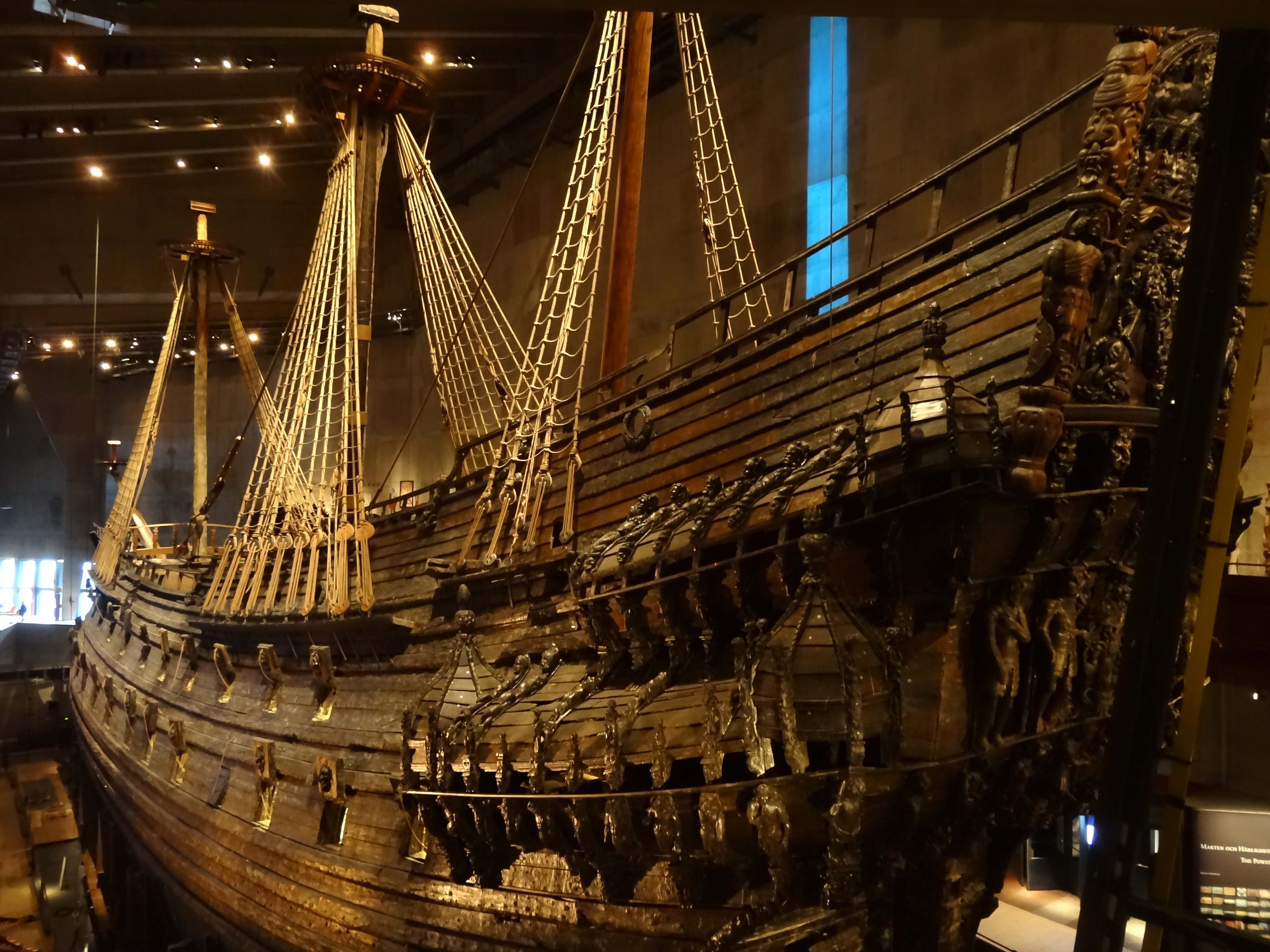 Exterior of Vasa (ship, 1627)